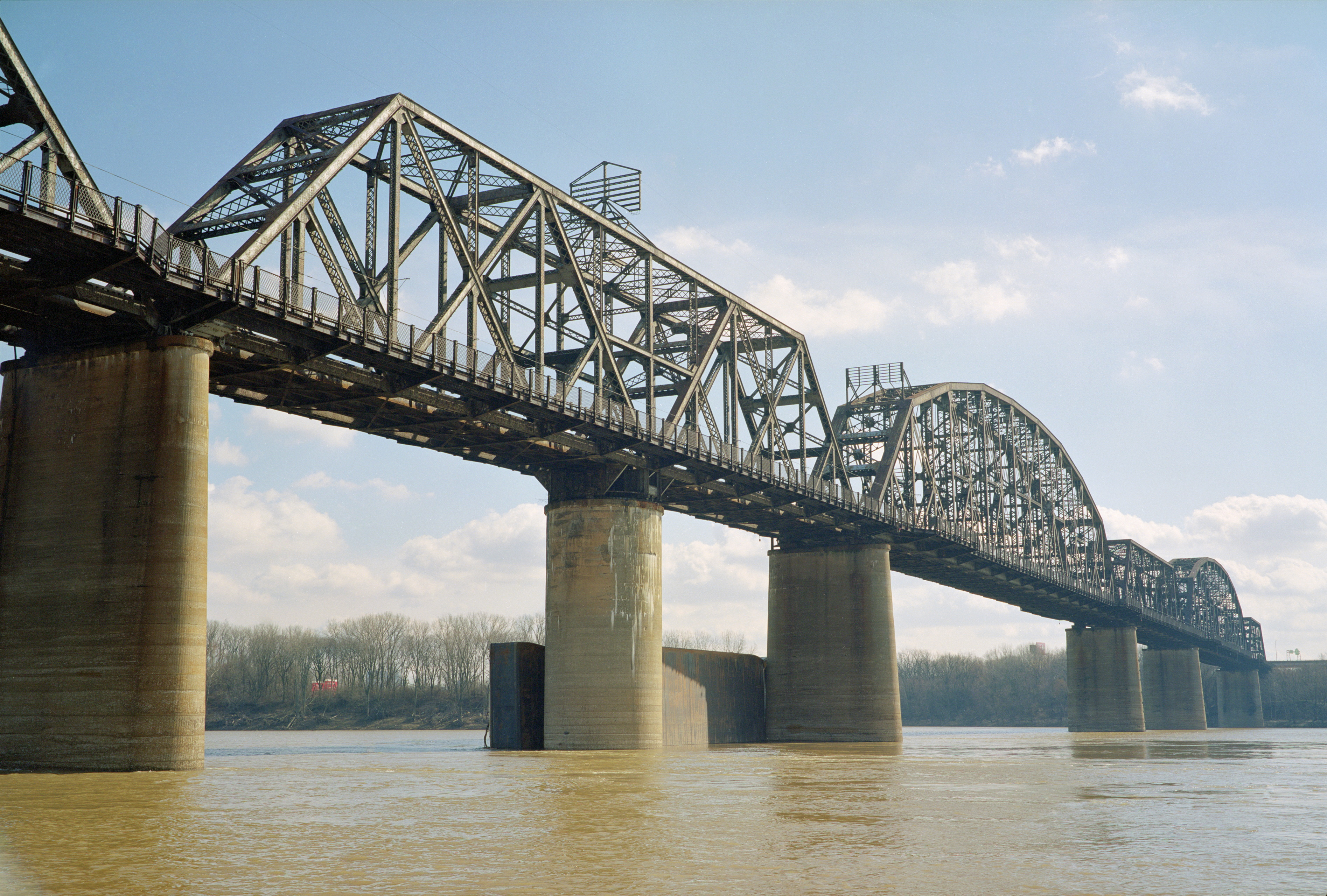 Kentucky and Indiana (K&I) Bridge (looking SE from riverbank at New Albany, Indiana)